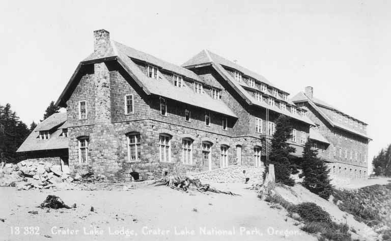 Caption on image: 13 332 Crater Lake Lodge, Crater Lake National Park, Oregon. Filed in: Oregon--Crater Lake Crater Lake Lodge opened in 1915. William Steel, head of the Mazamas mountaineering club, raised money for lodge construction and hired Portland developer Alfred Parkhust. Steel also lobbied for federal protection of the Crater Lake area, which gained national park status in 1902. Subjects (LCTGM): Resorts--Oregon; Postcards Subjects (LCSH): Crater Lake Lodge